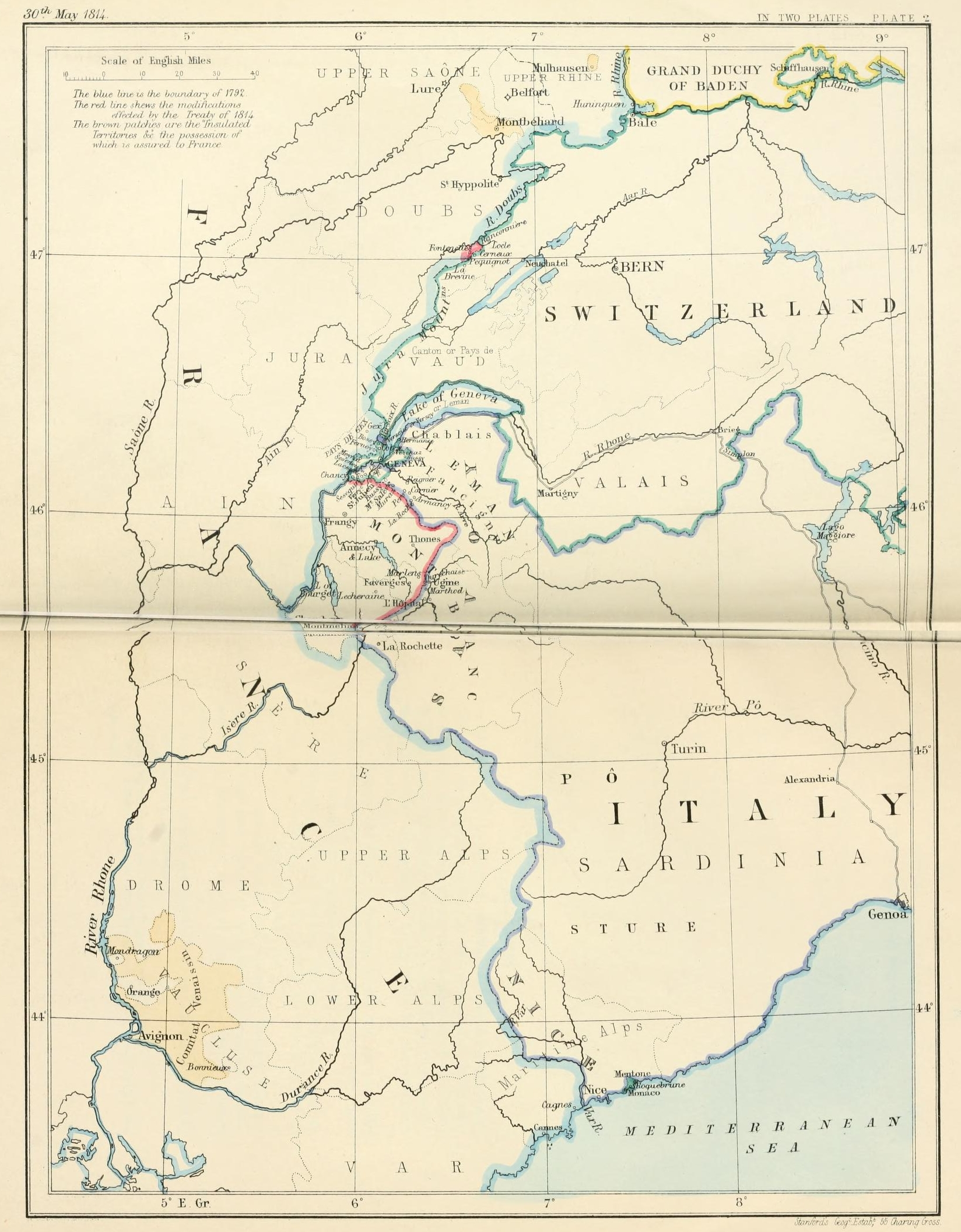 South-east frontier of France after the Treaty of Paris, 1814